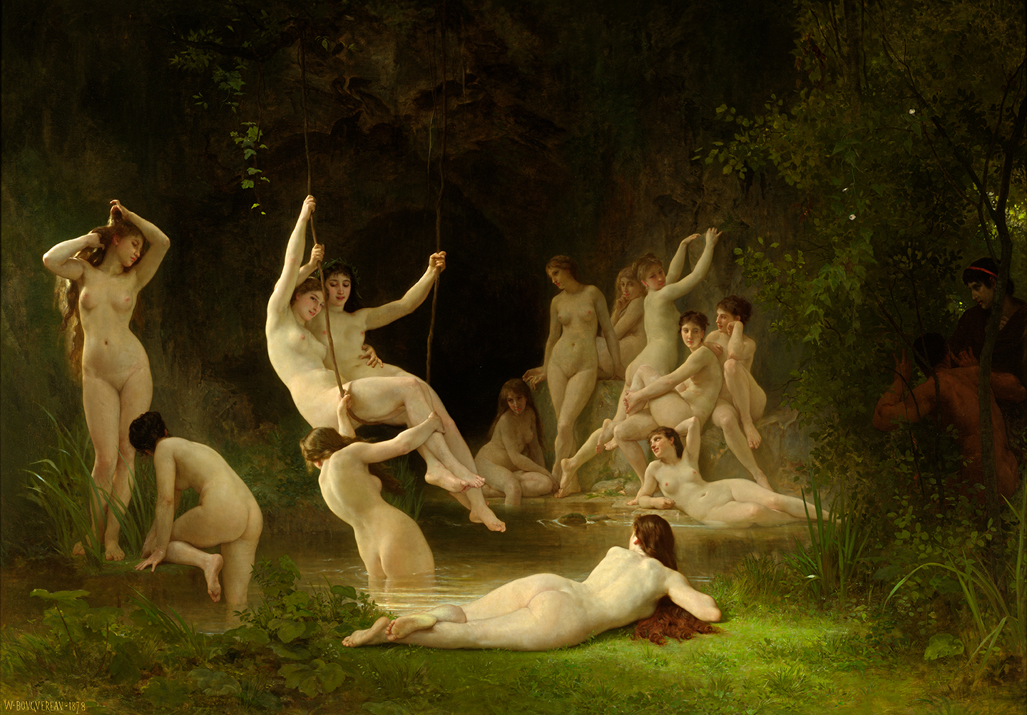 The-Nymphaeum (1878) by William-Adolphe Bouguereau, Haggin Museum, Stockton, CA